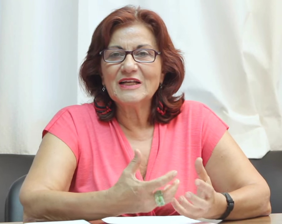 Theano Fotiou, Greek politician and current Alternate Minister of Social Solidarity